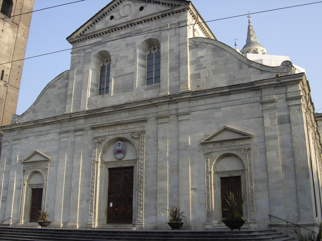 Exterior of the Cathedral of St. John the Baptist in Torino, Italy.